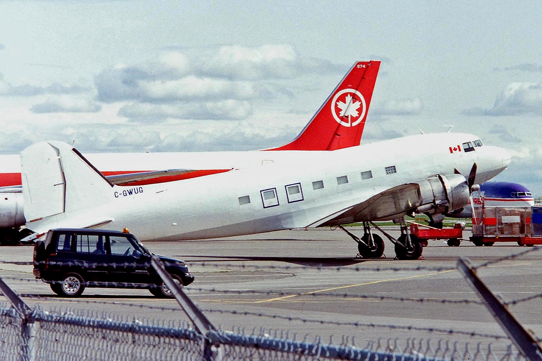 A picture of an airplane (name of it is on the file name).